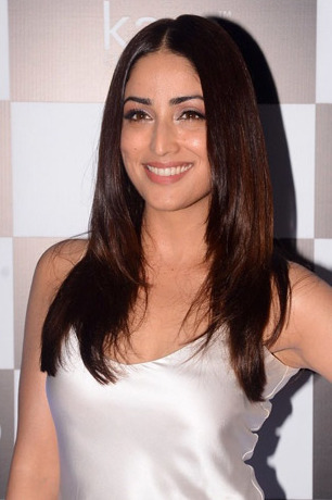 Yami Gautam grace the ELLE India Graduates 2018 event on March 2018.